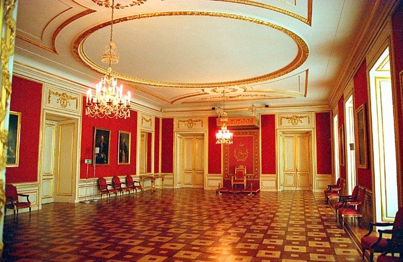 Council Chamber at the Royal Castle in Warsaw.